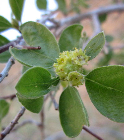 Colubrina californica National Park Service photo